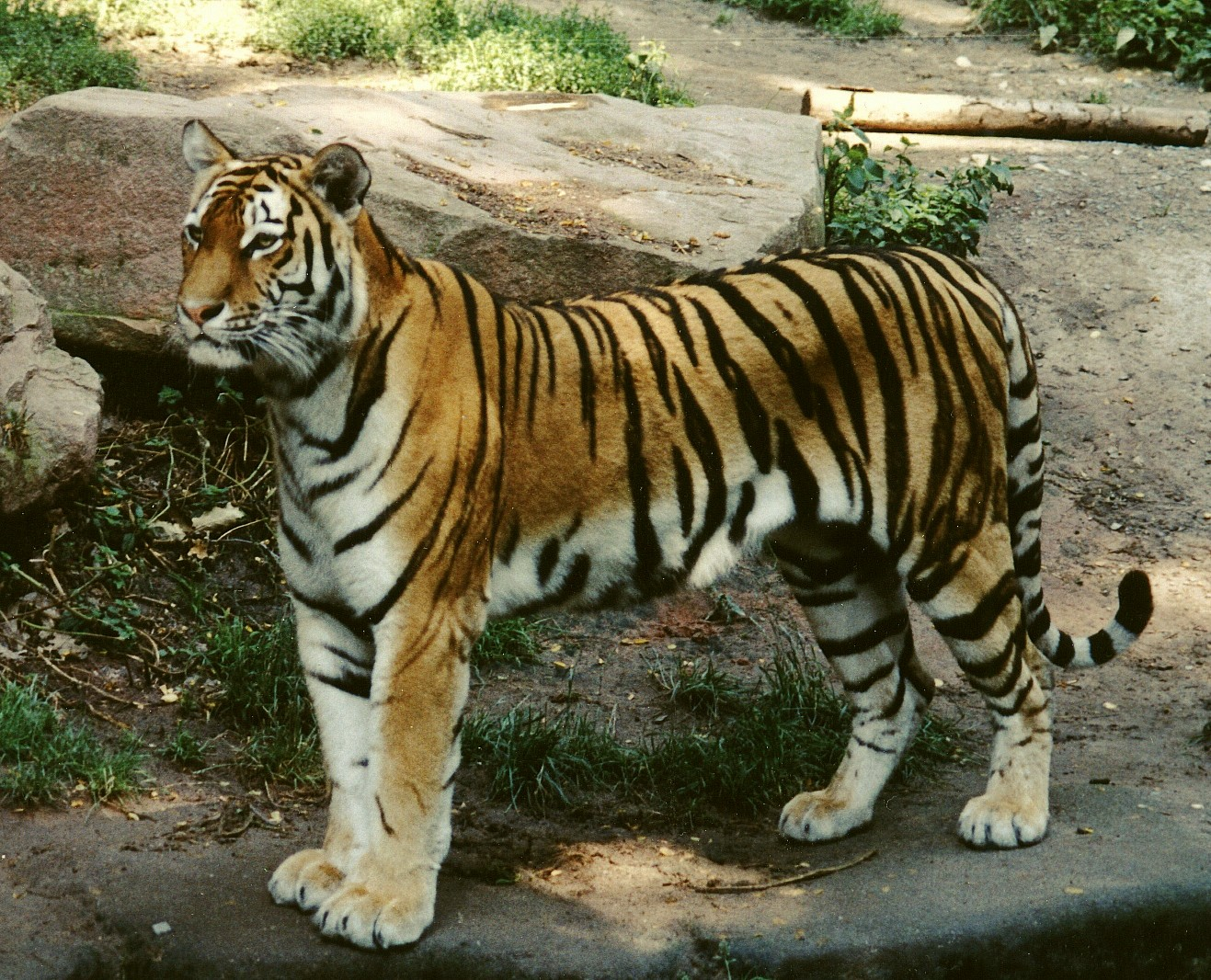 Siberian tiger (Panthera tigris altaica), female in Nuremberg Zoo